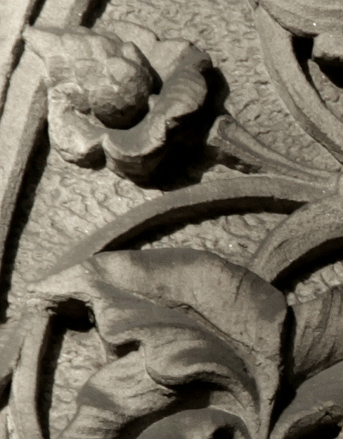 These carvings by Matthew Taylor and Benjamin Payler are on the exterior of the former Municipal Buildings (now the Central Library), Leeds, West Yorkshire, England. It was built 1879-1884 to the design of George Corson. Showing detail of a spandrel above the side/south library door facing the headrow.